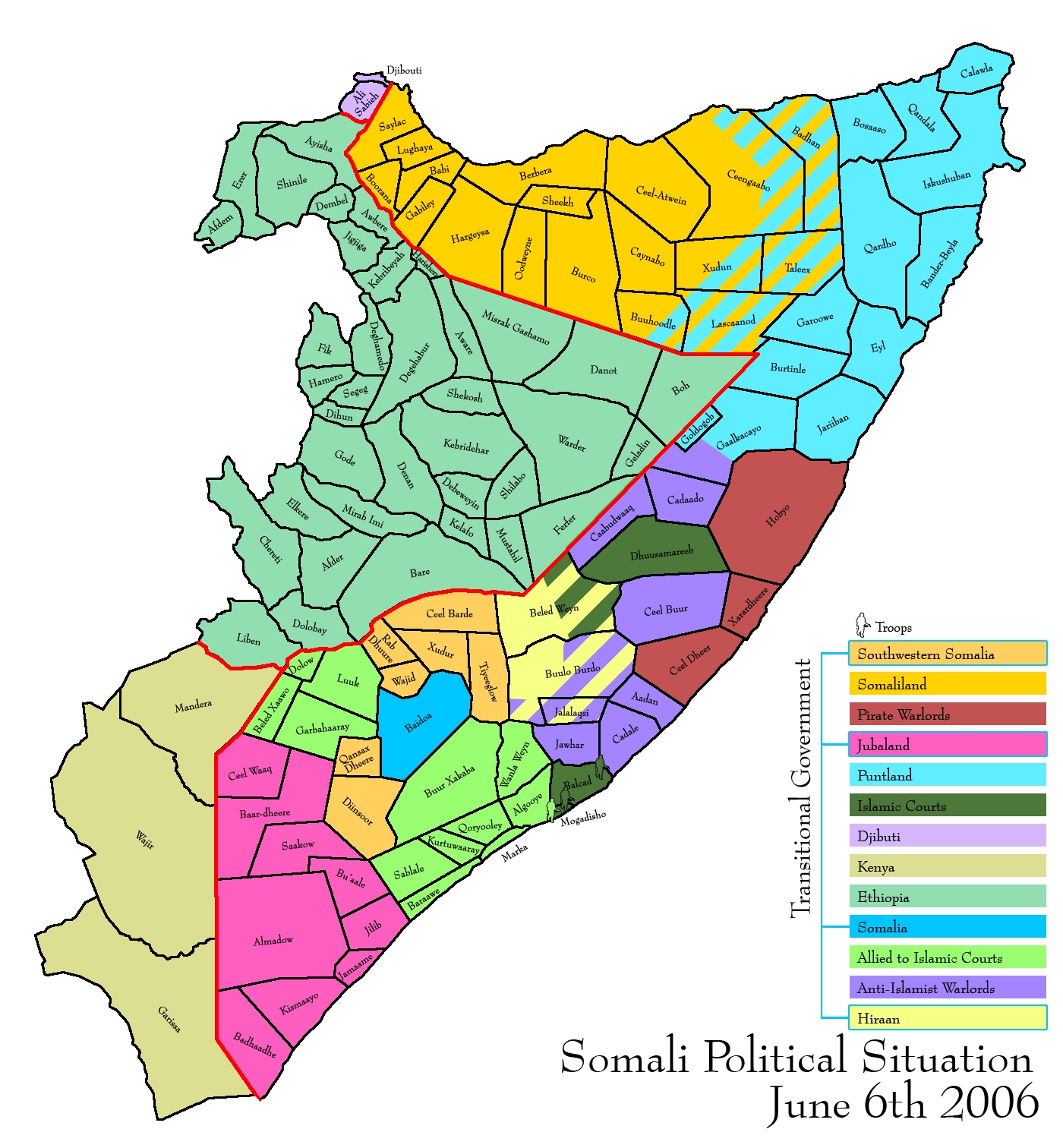 Somali political situation as of June 6, 2006.